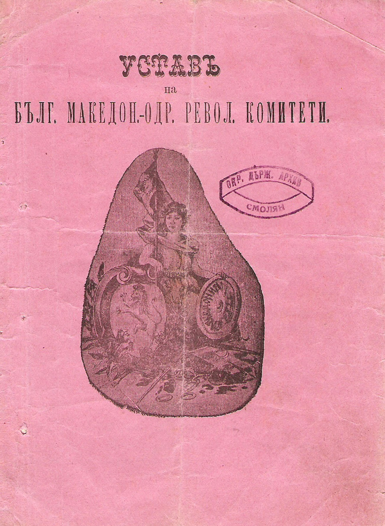 Statute of the Bulgarian Macedonian-Adrianopolitan Revolutionary Committees.